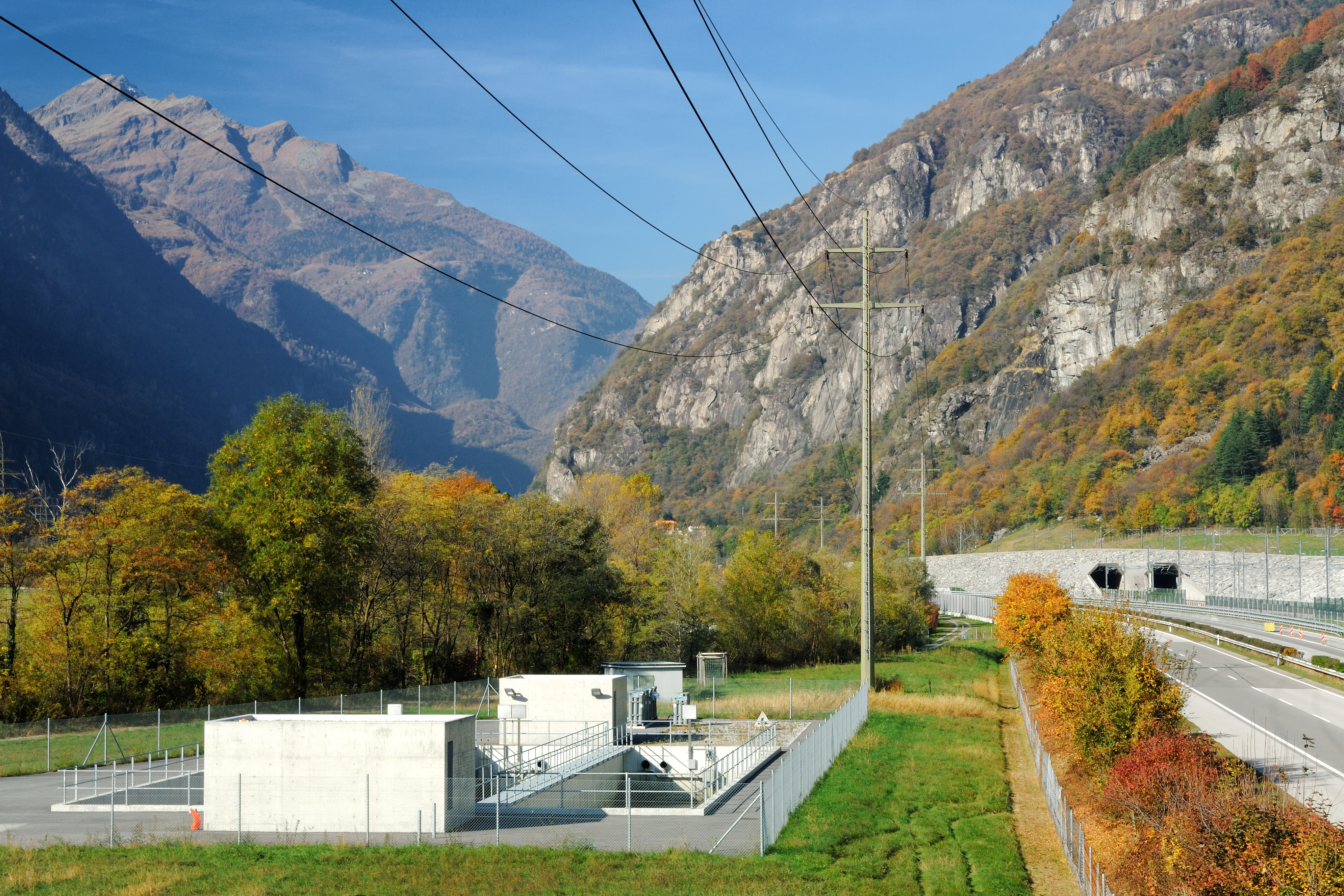 1 November 2016 weather at Pollegio, looking north (southern portal of the Gotthard Base Tunnel). Sunny, maximum temperature: ~10°C